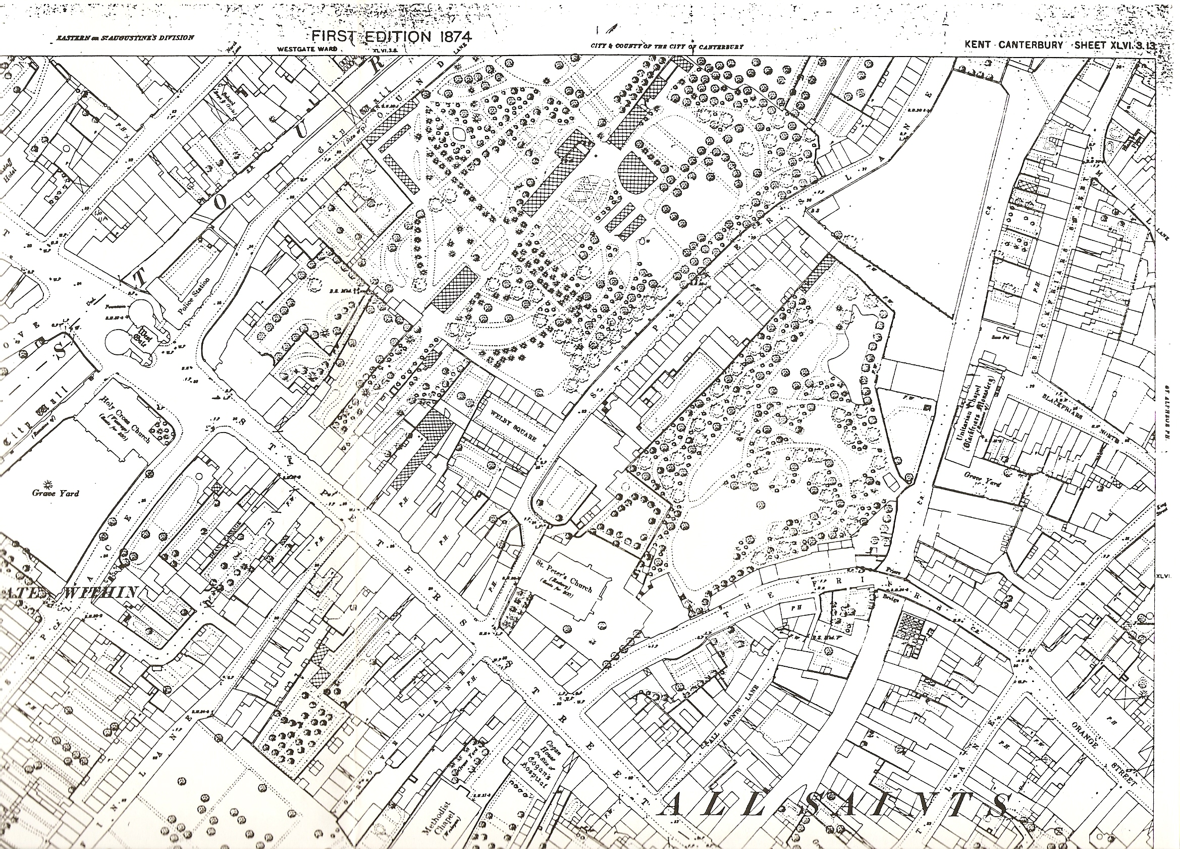 Part of OS map of part of Canterbury, Kent, England, dated 1874